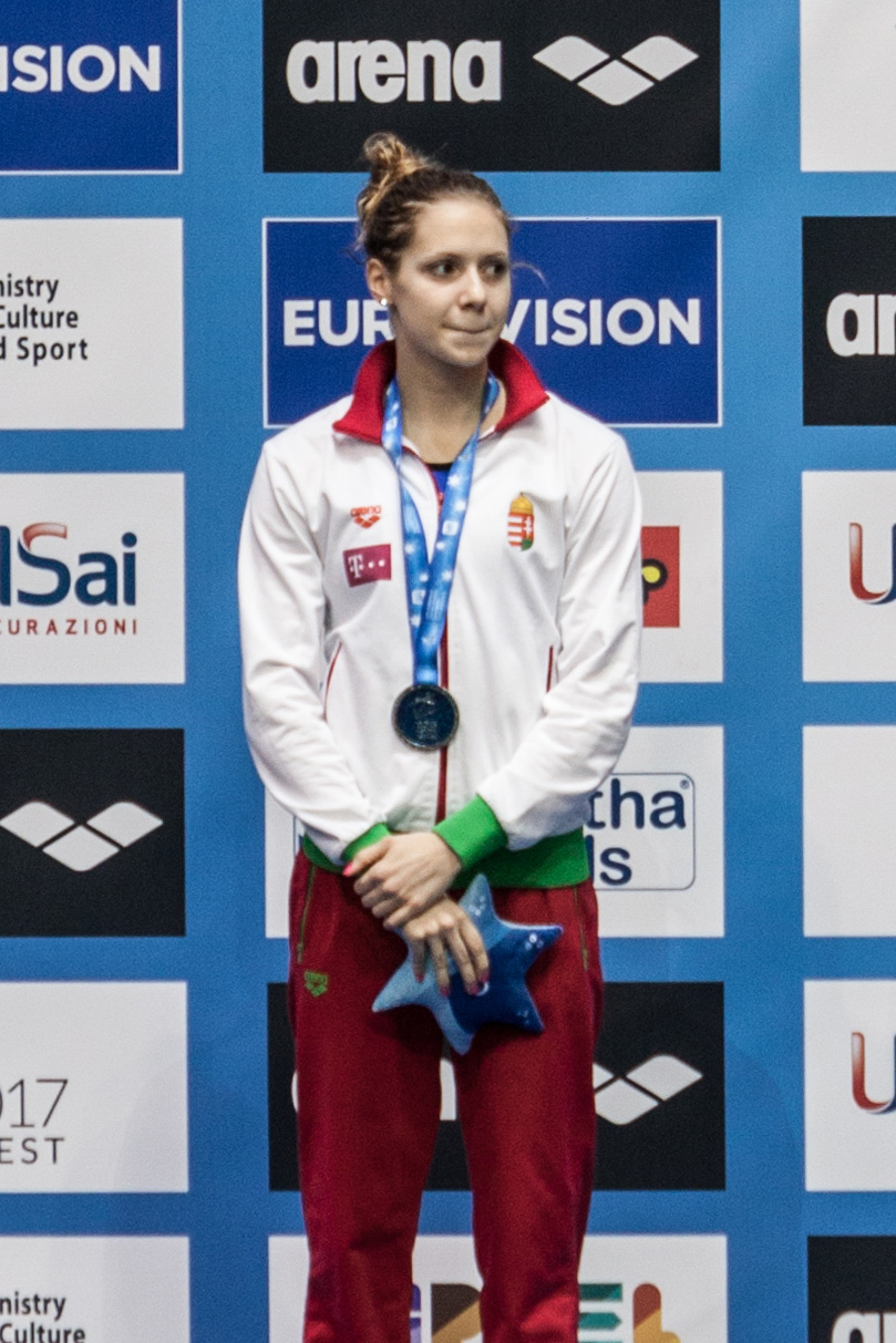 Swimmer Boglárka Kapás wearing the silver medal she won at the 800m freestyle, 2015 European Short Course Swimming Championships, Netanya